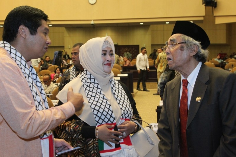 The inauguration of Sabam Sirait as inter-time substitute member of the Regional Representative Council.